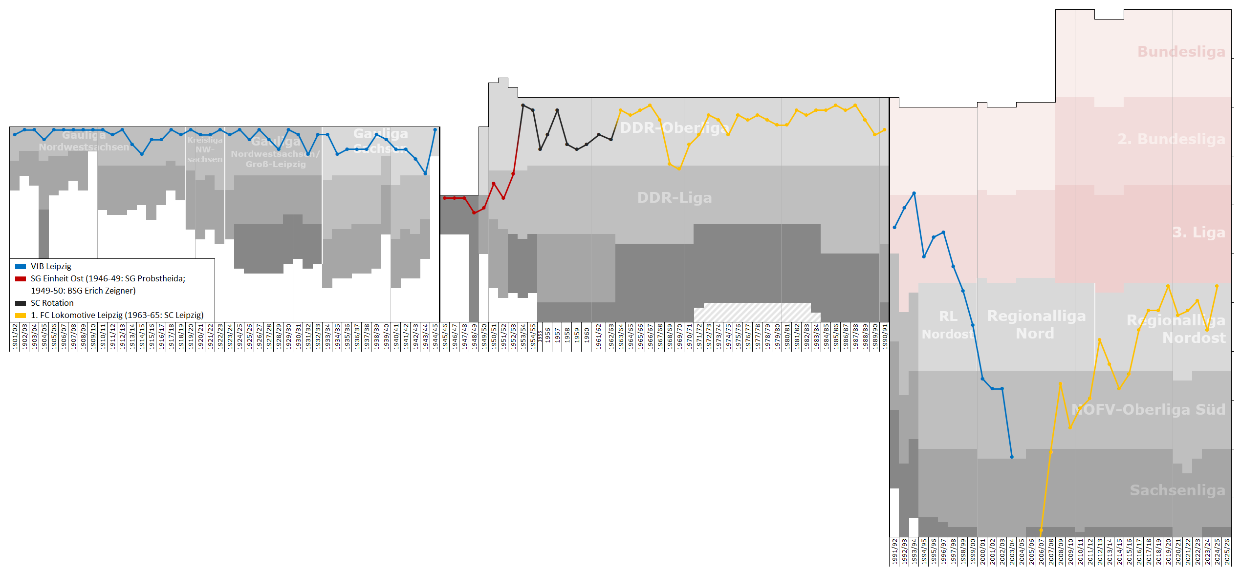 Chart of end-season table positions of Lokomotive Leipzig in the football league system of Germany and GDR. Data source: RSSSF, wikipedia, f-archiv.de, fussball.de